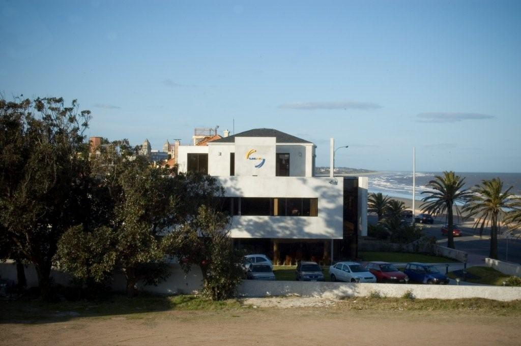 LACNIC's headquarters in Montevideo